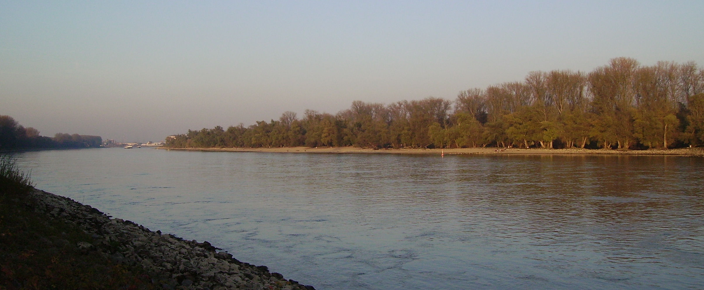 Description: Mannheim, Germany) Source: own photography Date: November 2005 Author: --Immanuel Giel 11:13, 17 November 2005 (UTC) Other versions: none Altrip